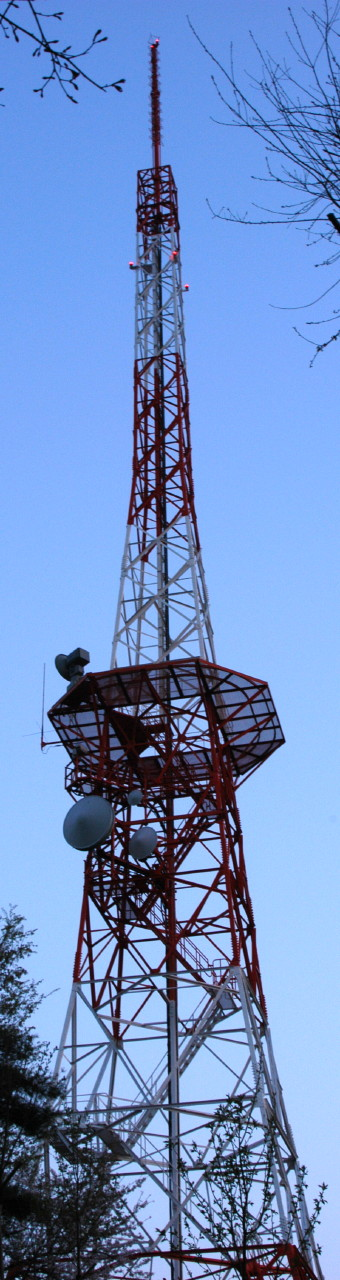 FBC TV tower